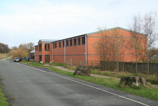 Apedale Heritage Centre Excellent local history centre with a leaning towards mining. The former Apedale Colliery is behind this building and underground tours are arranged. We were assured by the guide that firedamp was not an issue but we couldn't go below until the blackdamp had been dispersed by the fans.